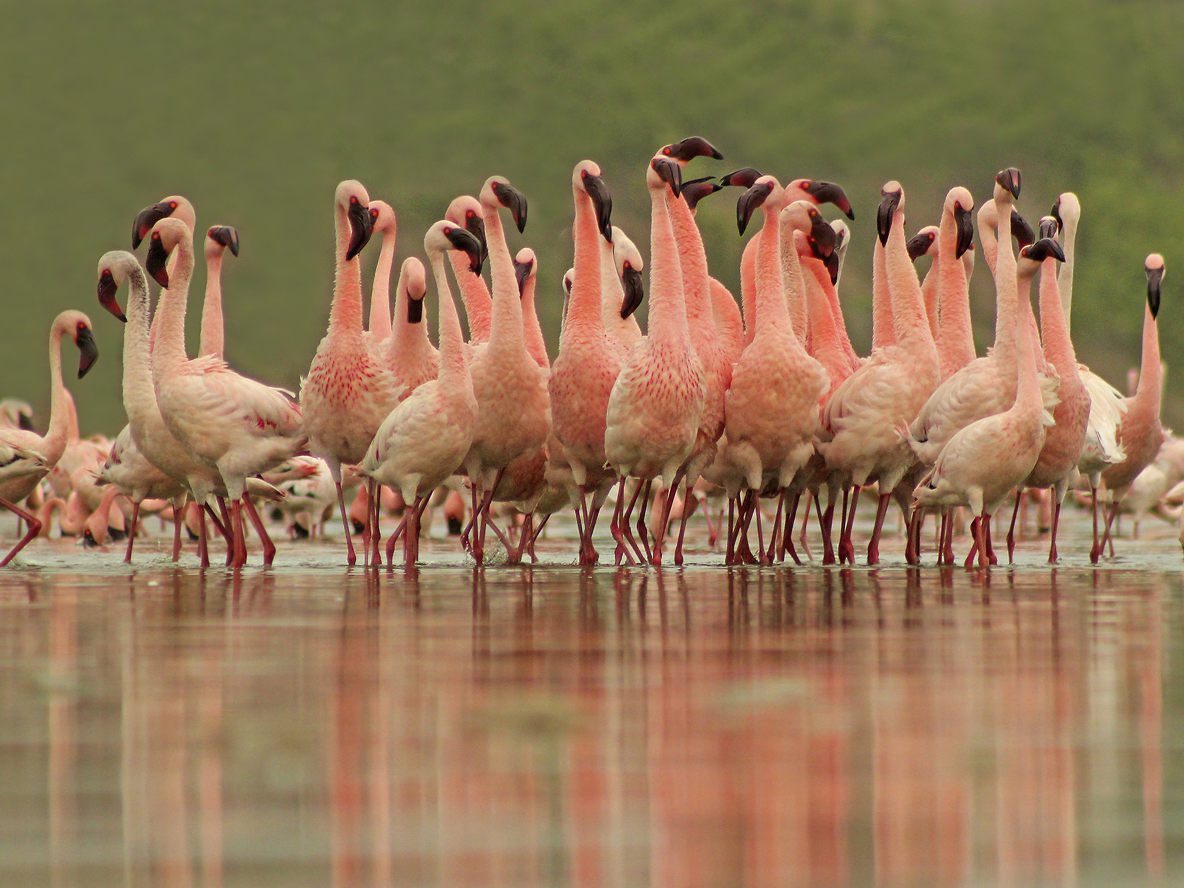 Lesser Flamingo in breeding plumage doing courtship dance at Porbandar. Mokarsagar Committee organises Pink Celebration event to rejoice this natural phenomenon.